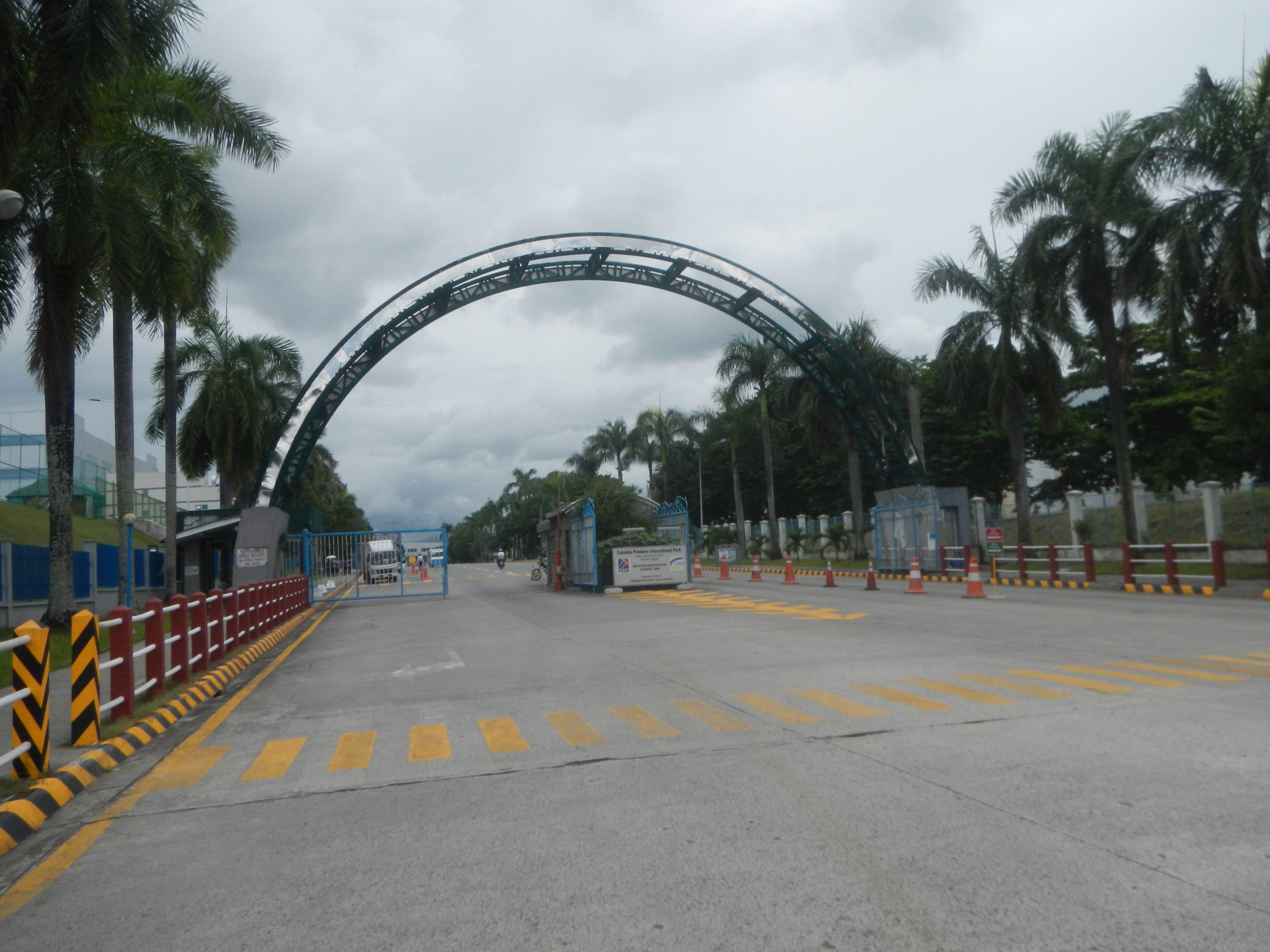 Calamba Premiere International Park List of barangays in Laguna (province) Category:Barangays of Calamba, Laguna Barangays Batino Batino 14°12'12"N 121°7'56"E Barandal 14°11'17"N 121°7'49"E BarandalBarandal Prinza, Calamba City 14.2020, 121.1393 Calamba, Laguna from Mayapa accessed from South Luzon Expressway to National Highway (Calamba Poblacion-Mayapa) of Maharlika Highway (Calamba City section) Pan-Philippine Highway Philippine highway network (Note: Judge Florentino Floro, the owner, to repeat, Donor Florentino Floro of all these photos hereby donate gratuitously, freely and unconditionally Judge Floro all these photos to and for Wikimedia Commons, exclusively, for public use of the public domain, and again without any condition whatsoever).